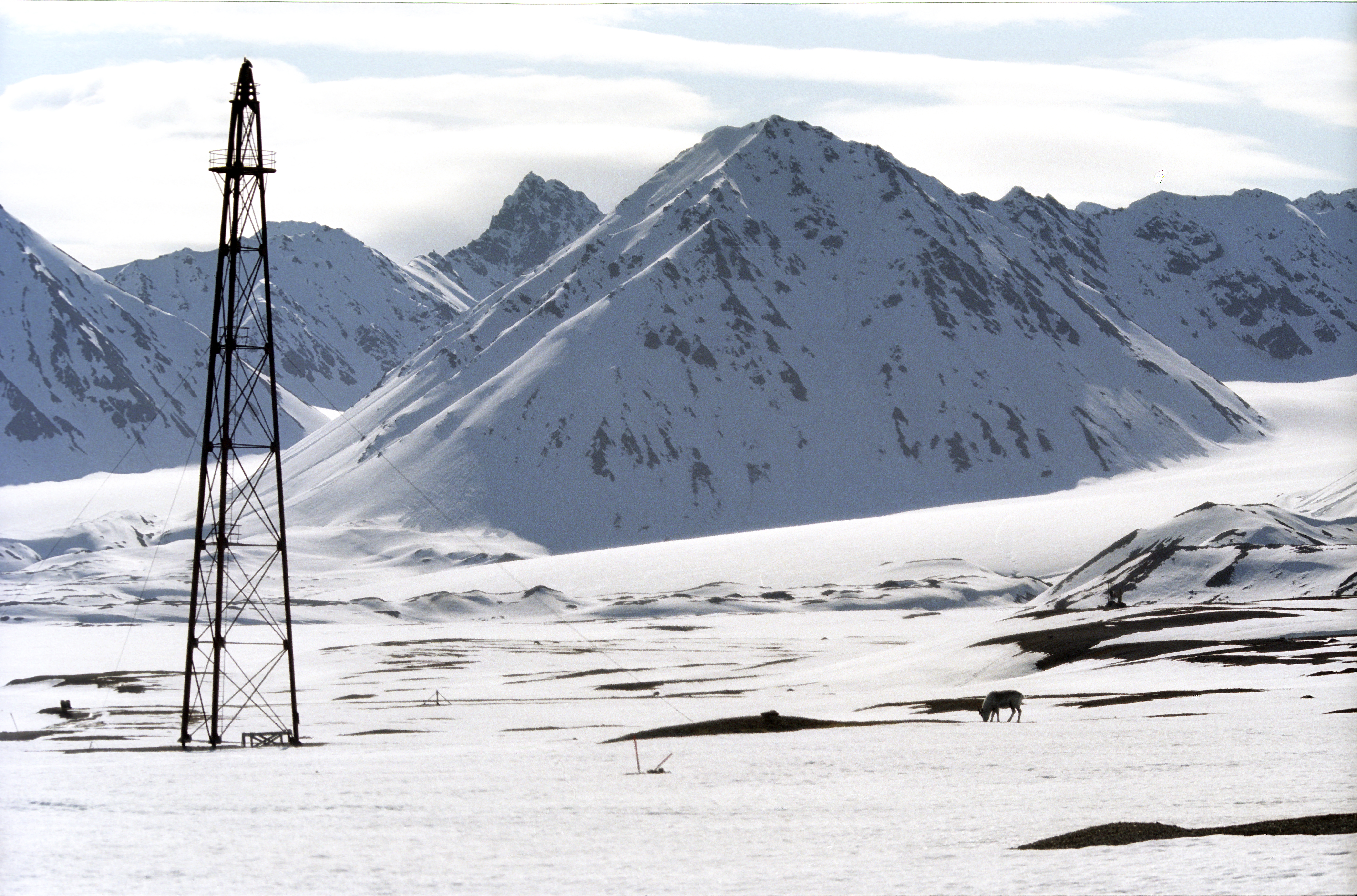 Svalbard, Ny-Ålesund, Dirigible launch tower